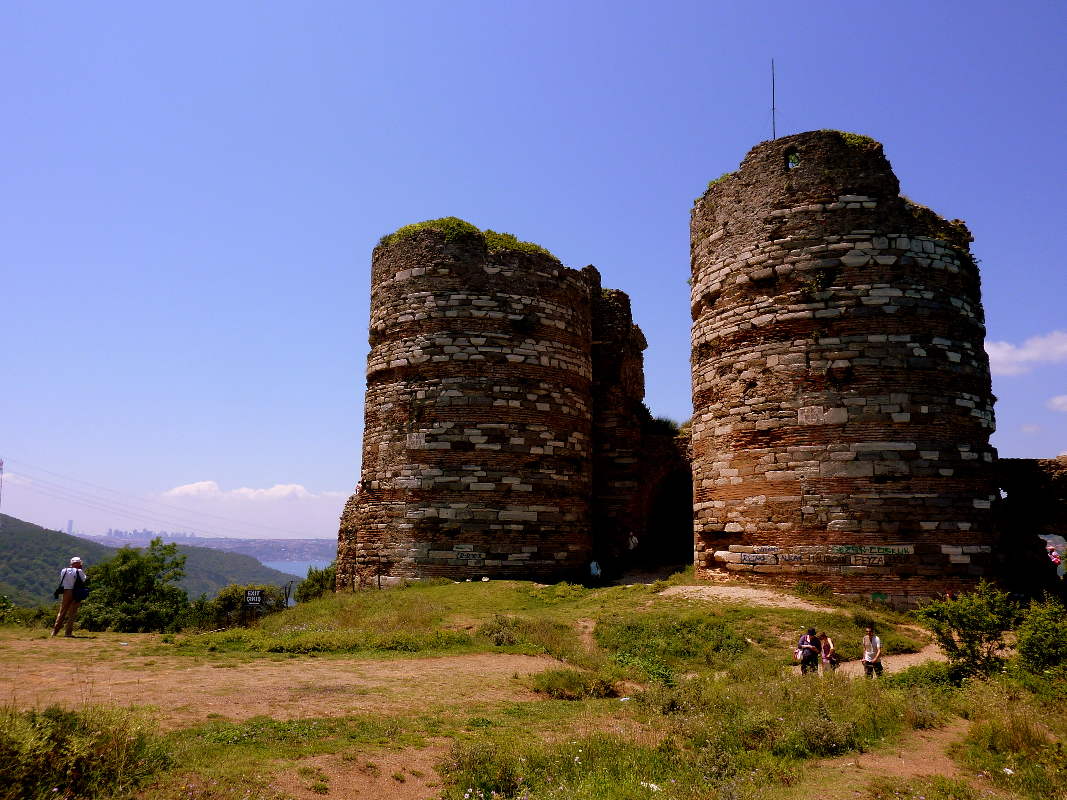 The gates of Yoros Castle.